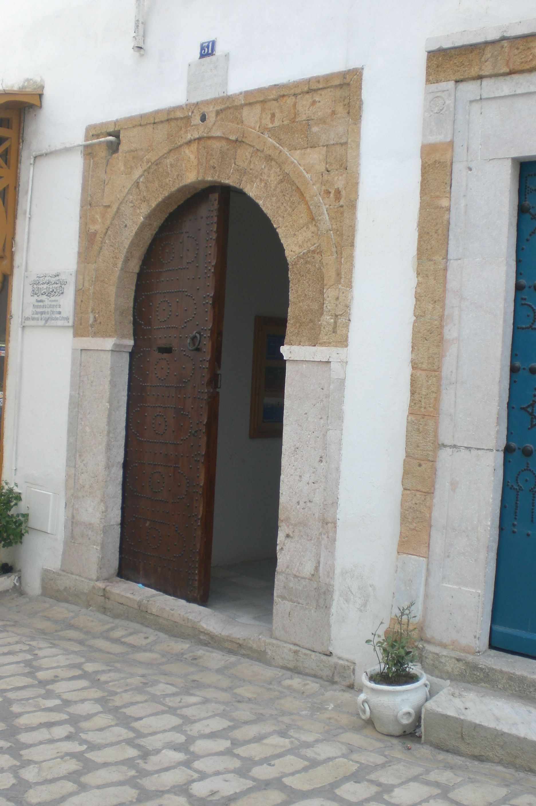 Medersa Salhia in Tunis